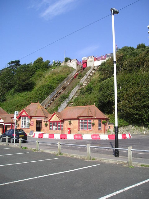 Leas Cliff Funicular railway. The lift at Folkestone cliffs.